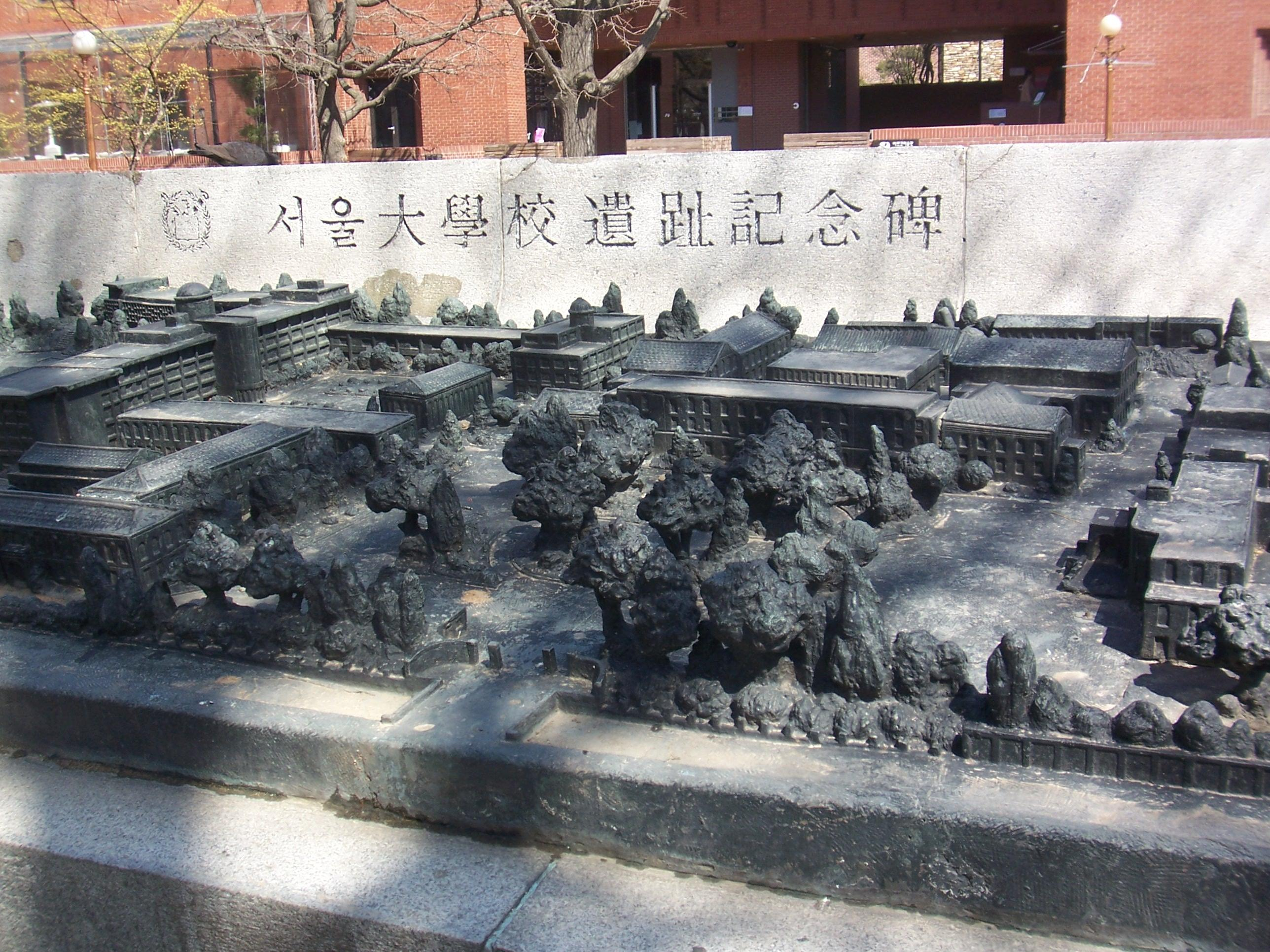 Monument of old Seoul national univ. site in Marronnier park, Jongno-gu, Seoul, Korea